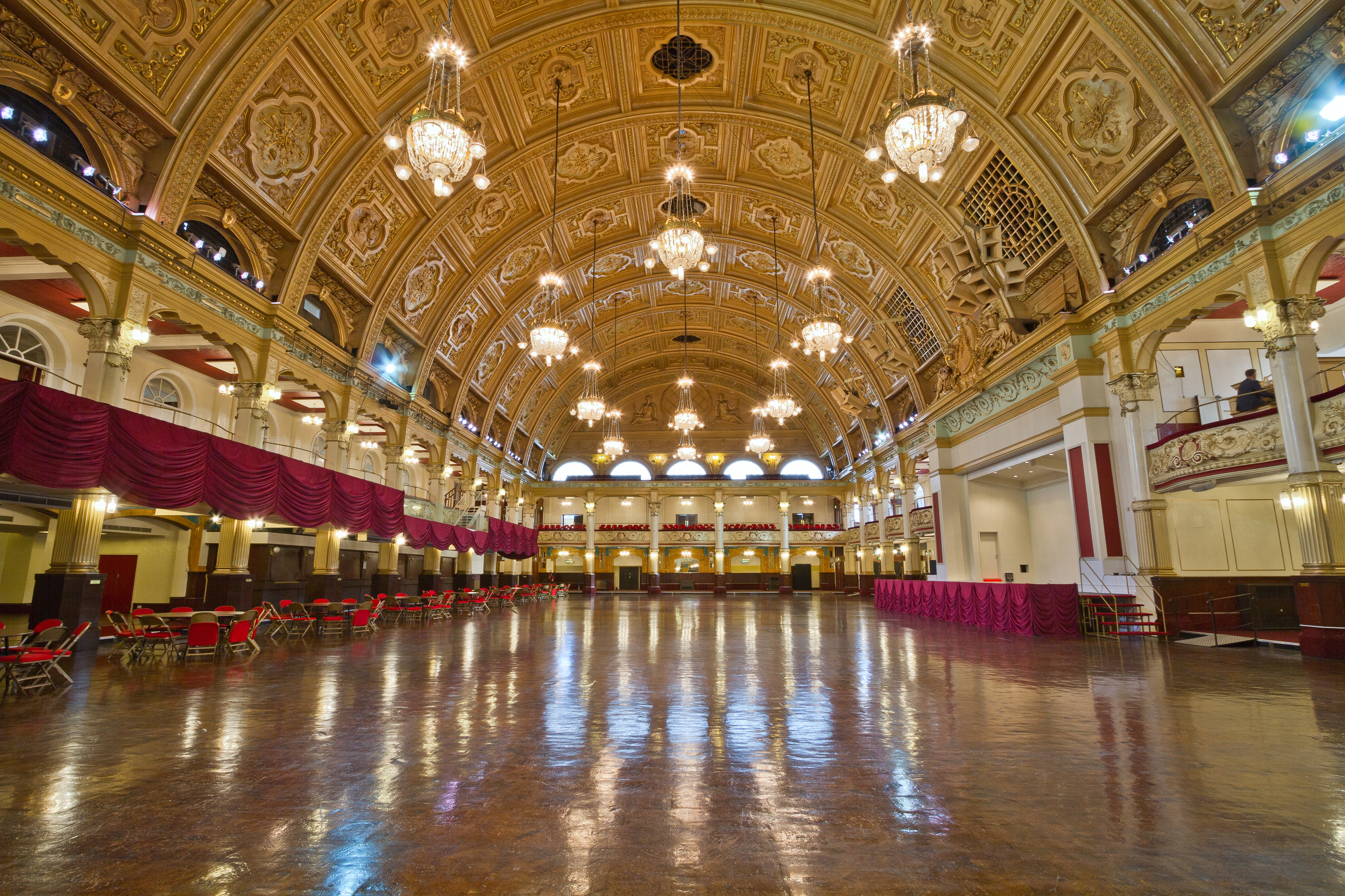 Here is a photograph taken from the Empress Ballroom inside the Winter Gardens. Located in Blackpool, Lancashire, England, UK.